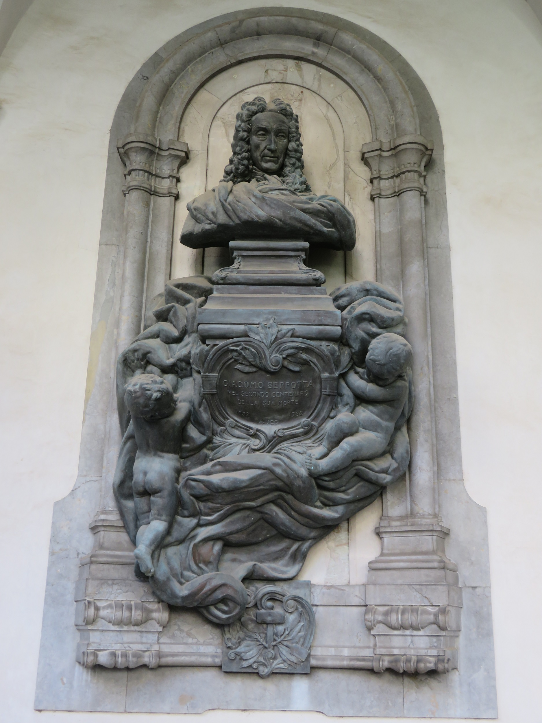 Giacomo Serpotta, Italian sculptor. Made by Antonio Ugo.